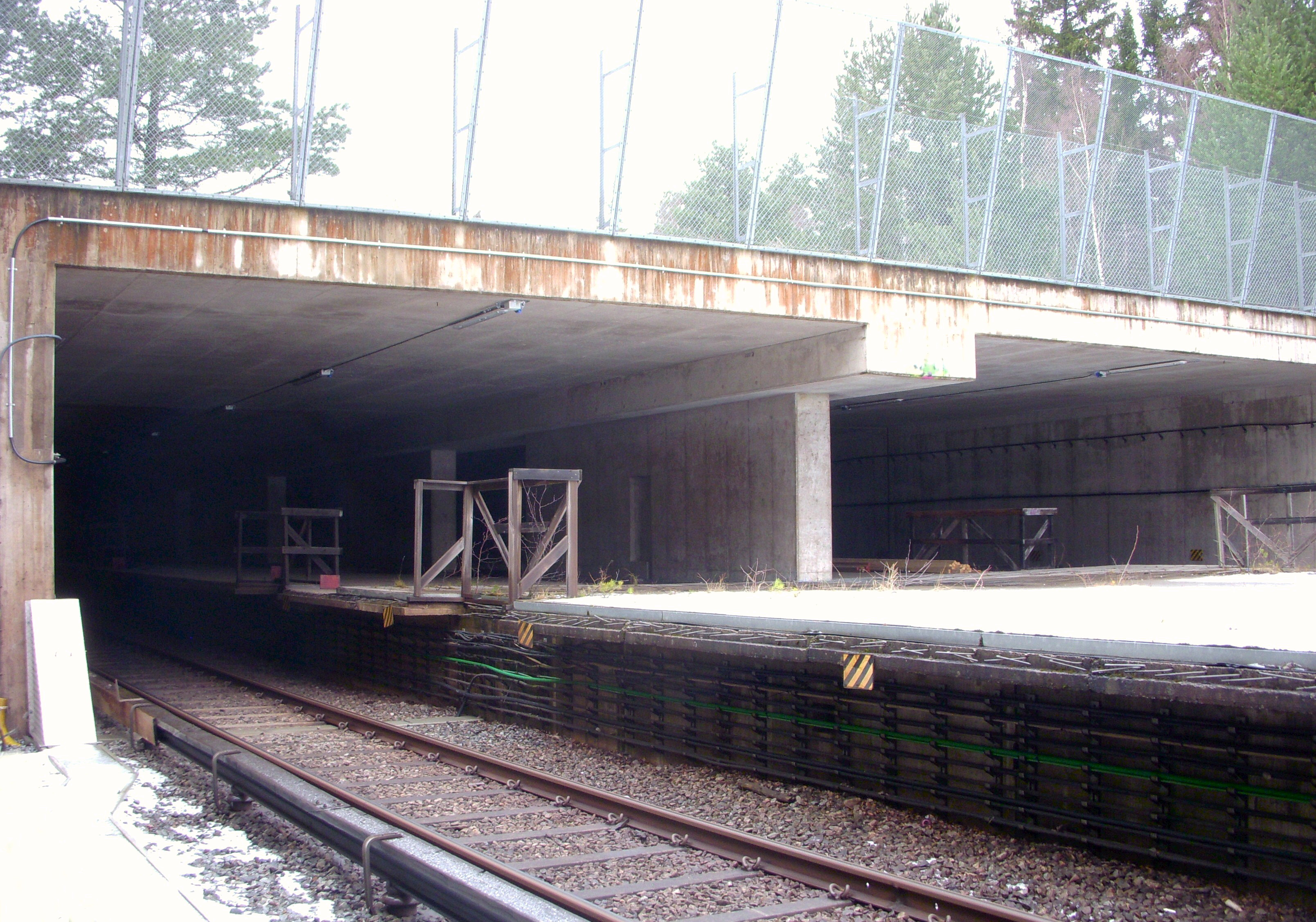 The never finished Stockholm metro station Kymlinge.